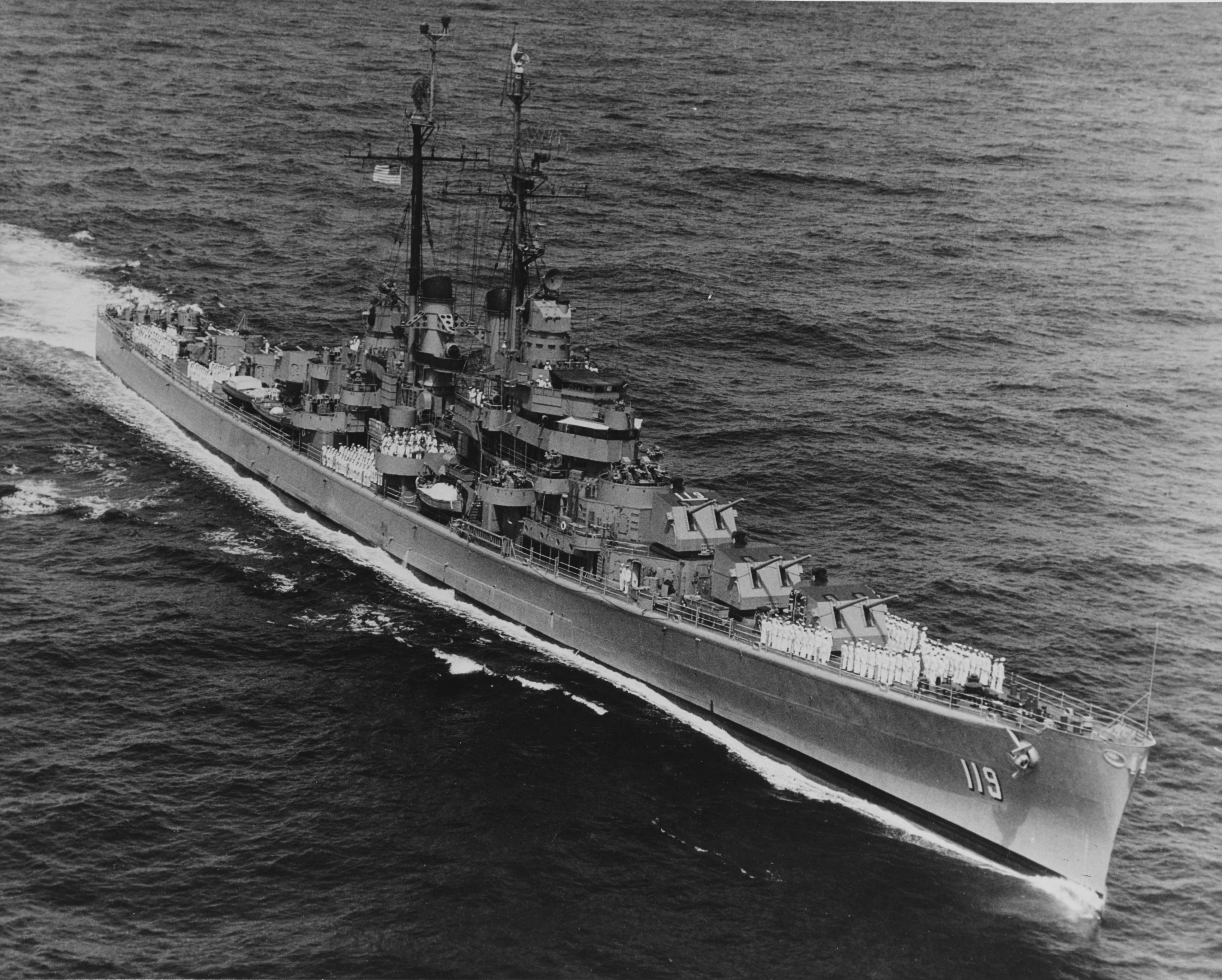 The U.S. Navy The U.S. Navy light anti-aircraft cruiser USS Juneau (CLAA-119) underway with her crew on deck in "Whites", 1 July 1951.